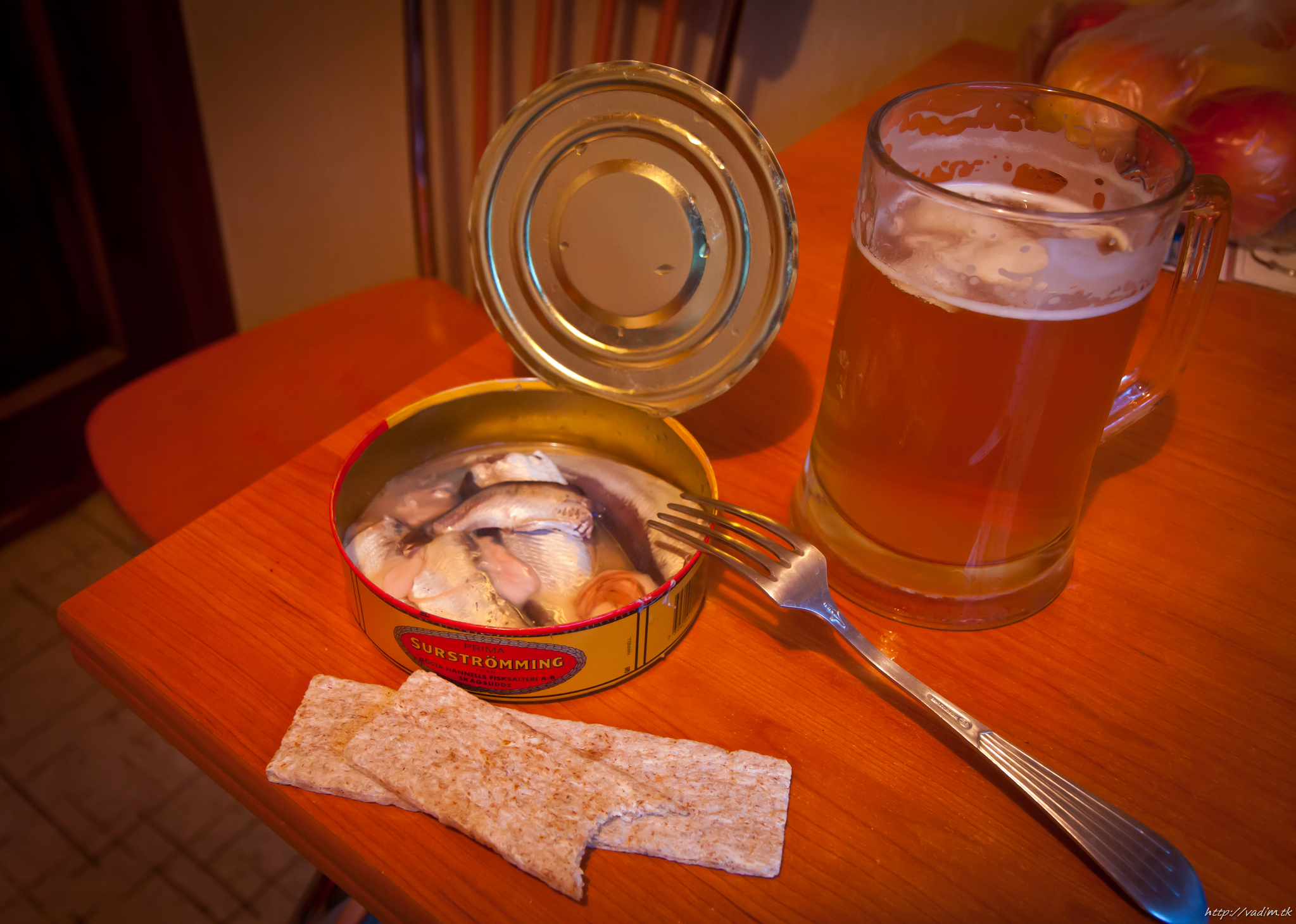 Eating Surstromming